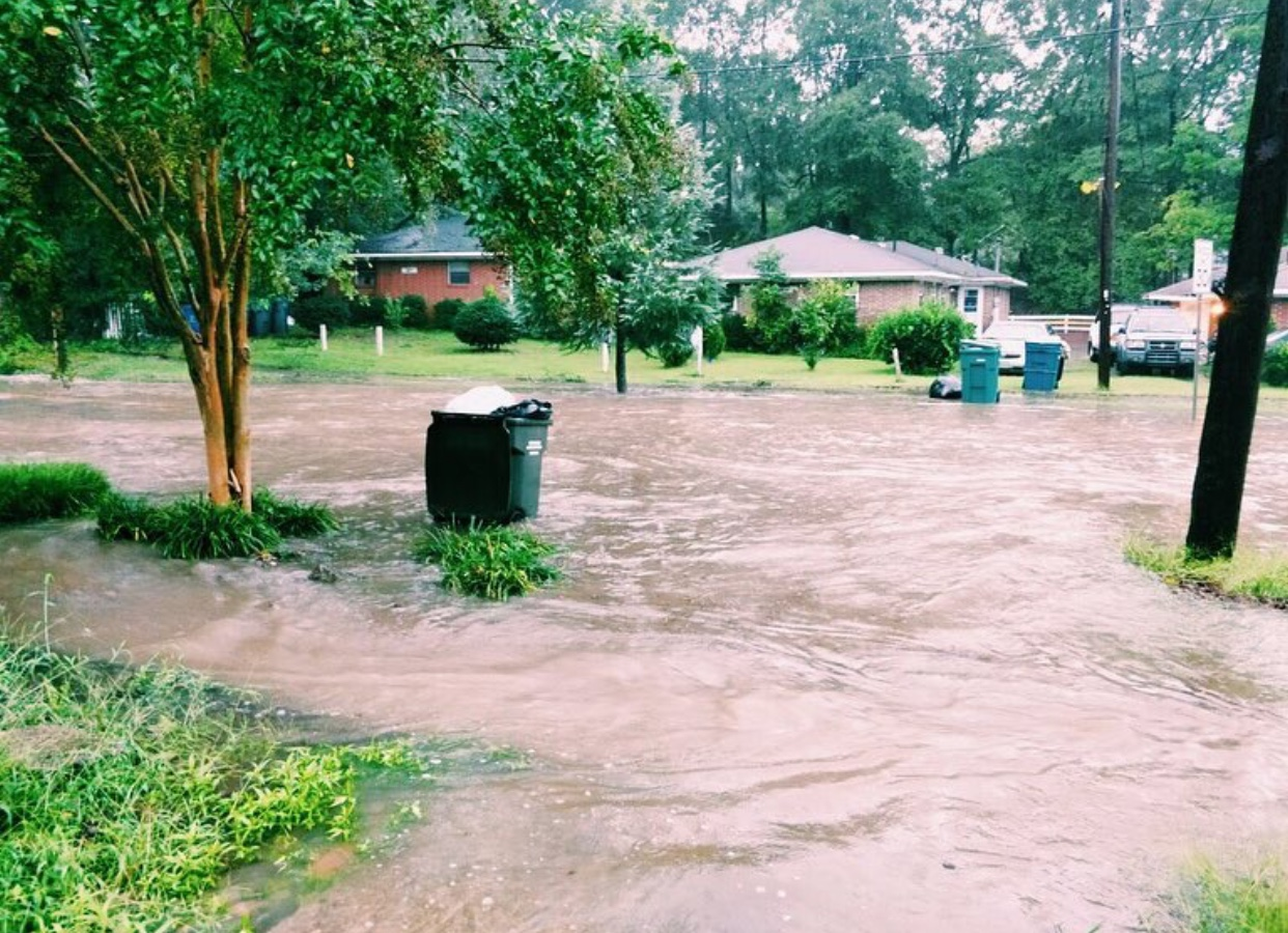 Flooding from Hurricane Florence in 2018 on Buchanan Boulevard, between Trinity Park and Walltown in Durham, North Carolina